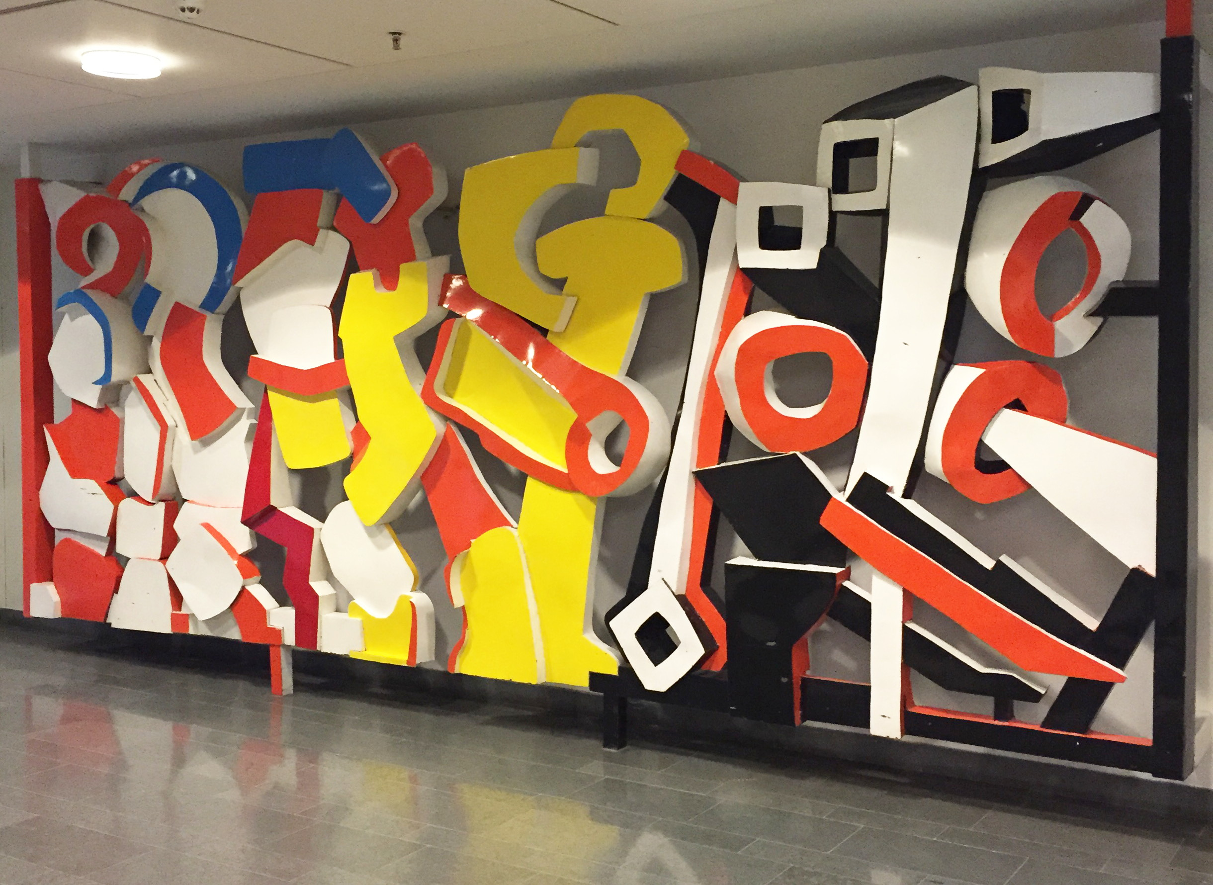 Metal installation by Aston Forsberg at Sabbatsbergs sjukhus in Stockholm, Sweden, 2015